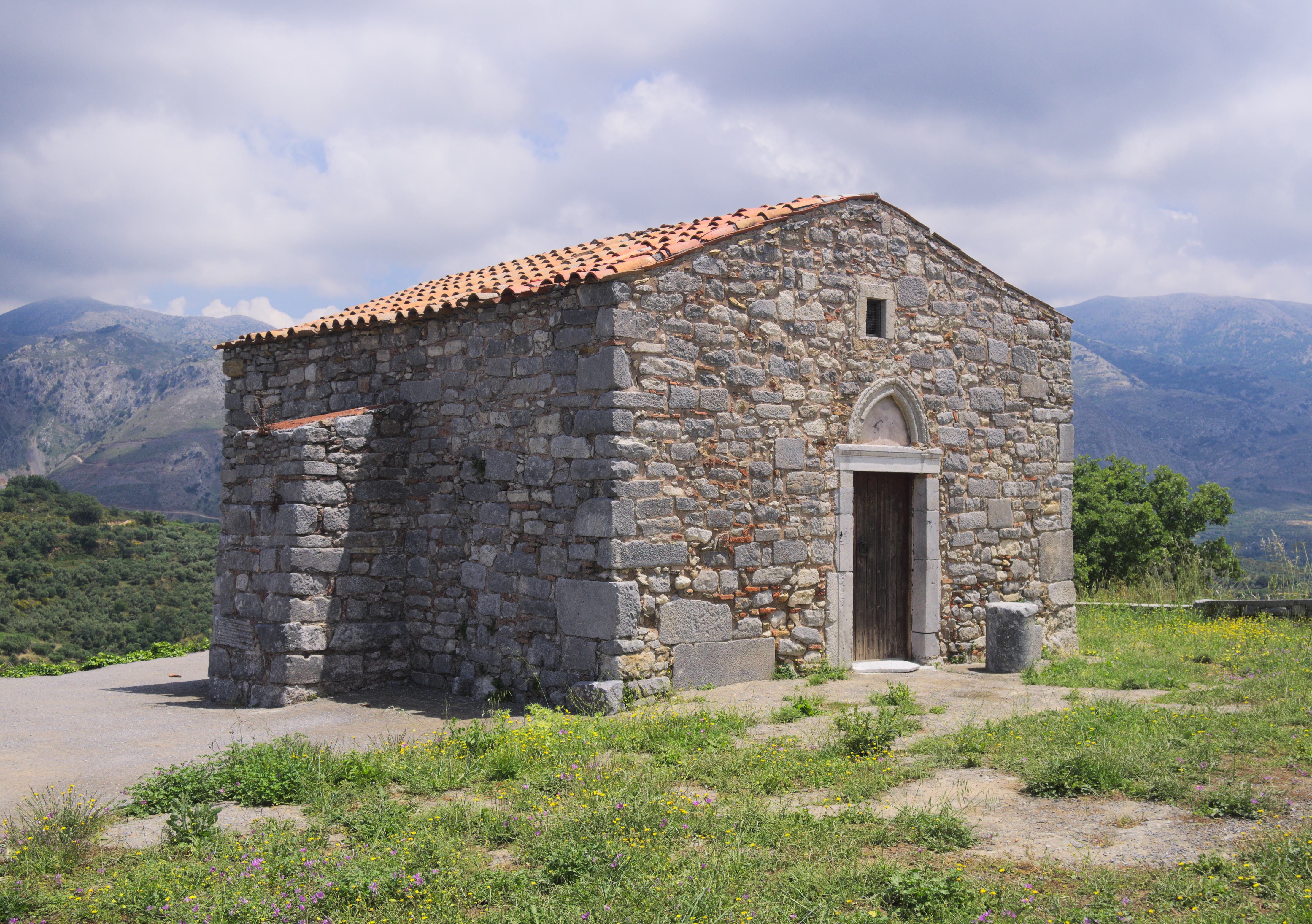 The church of Saint George near ancient Lyttos.